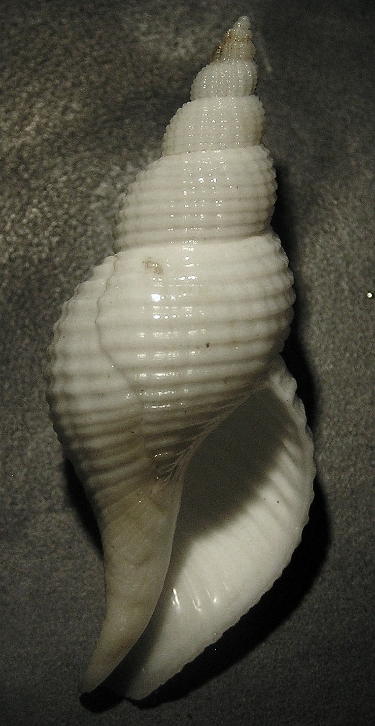 Calagrassor poppei (Fraussen, 2001) (synonym: Eosipho poppei Fraussen, 2001) , a true whelk in the family Buccinidae; Philippines